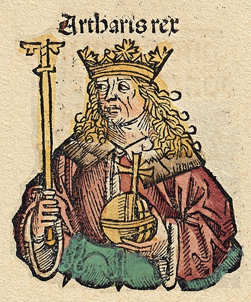 Woodcut from the Nuremberg Chronicle The Lombard king Authari, ruler from 584 to 590